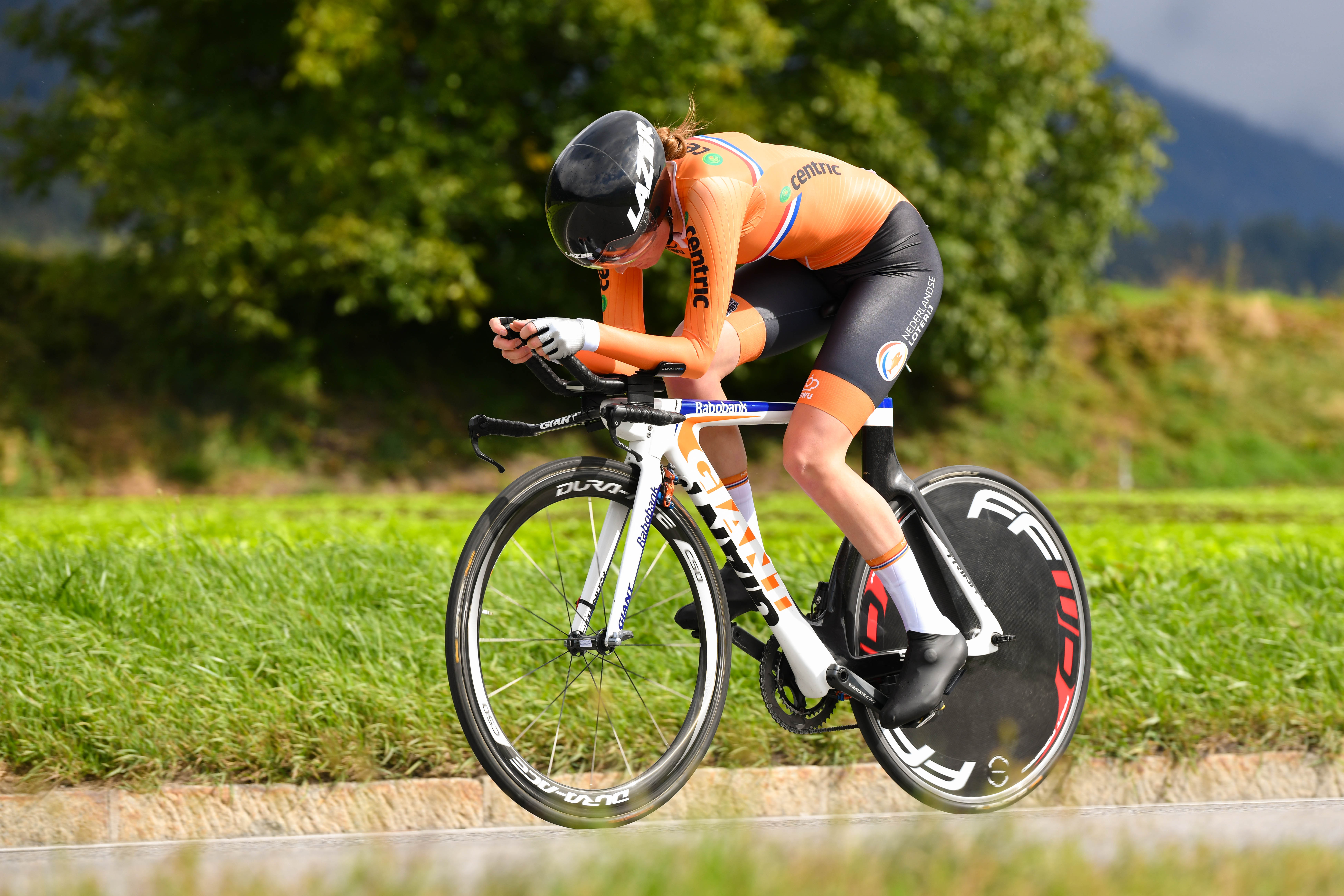 2018 UCI Road World Championships Innsbruck/Tirol Women Juniors Individual Time Trial. Picture shows: Rosemarijn Ammerlaan (NED)